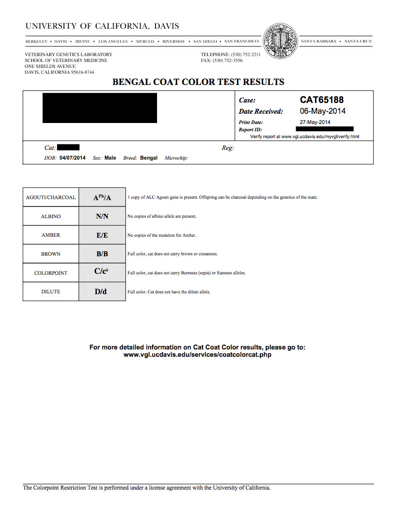 Bengal Color dna test of a Bengal that carries three recessive colors